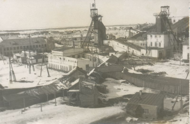 Intalag Mine 9 in 1954